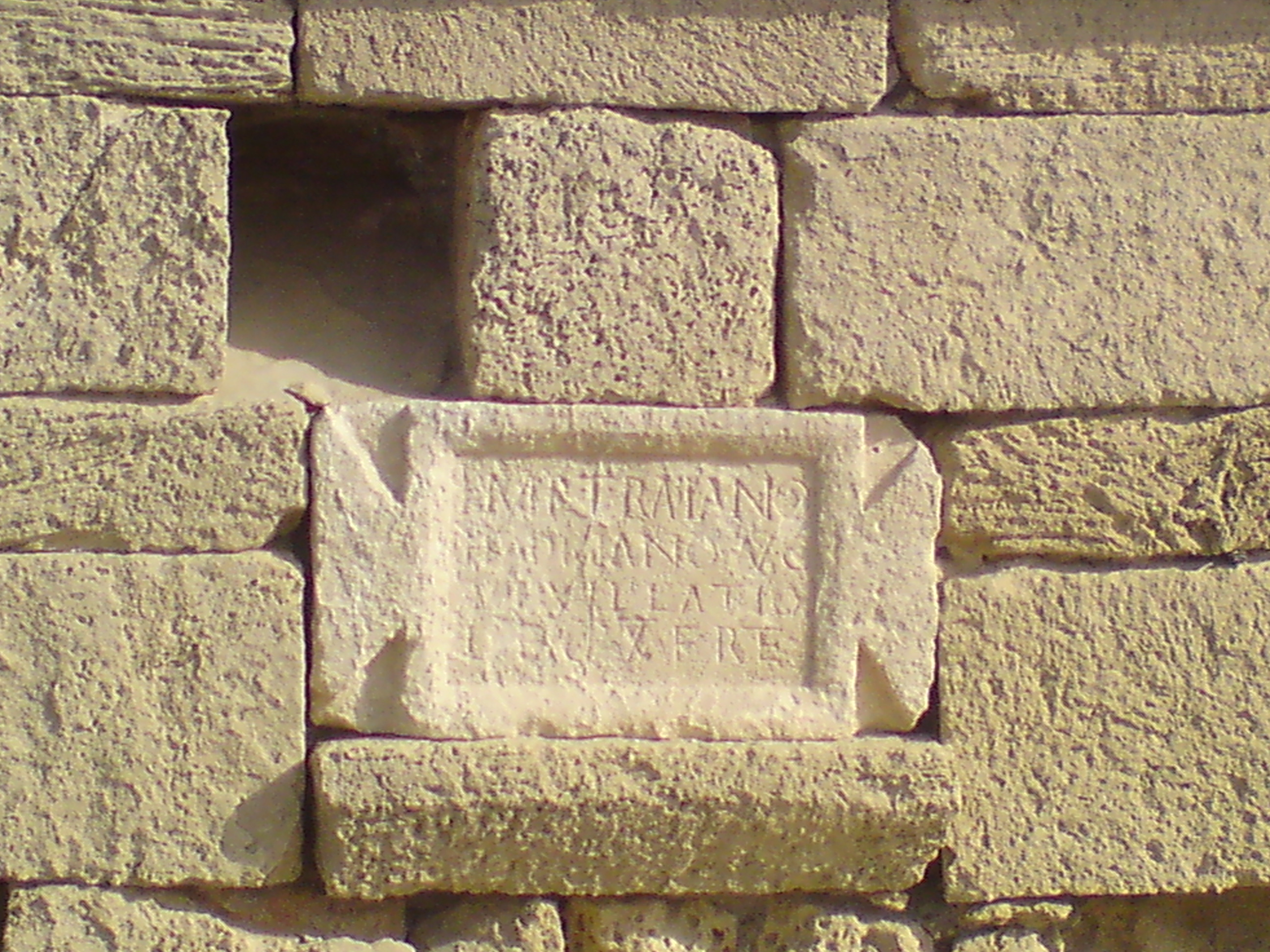 Inscription of the Legio X Fretensis from the High-Level Aqueduct of Caesarea